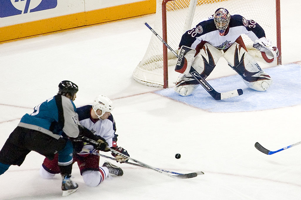 Columbus Blue Jackets vs. San Jose Sharks 3/16/2007